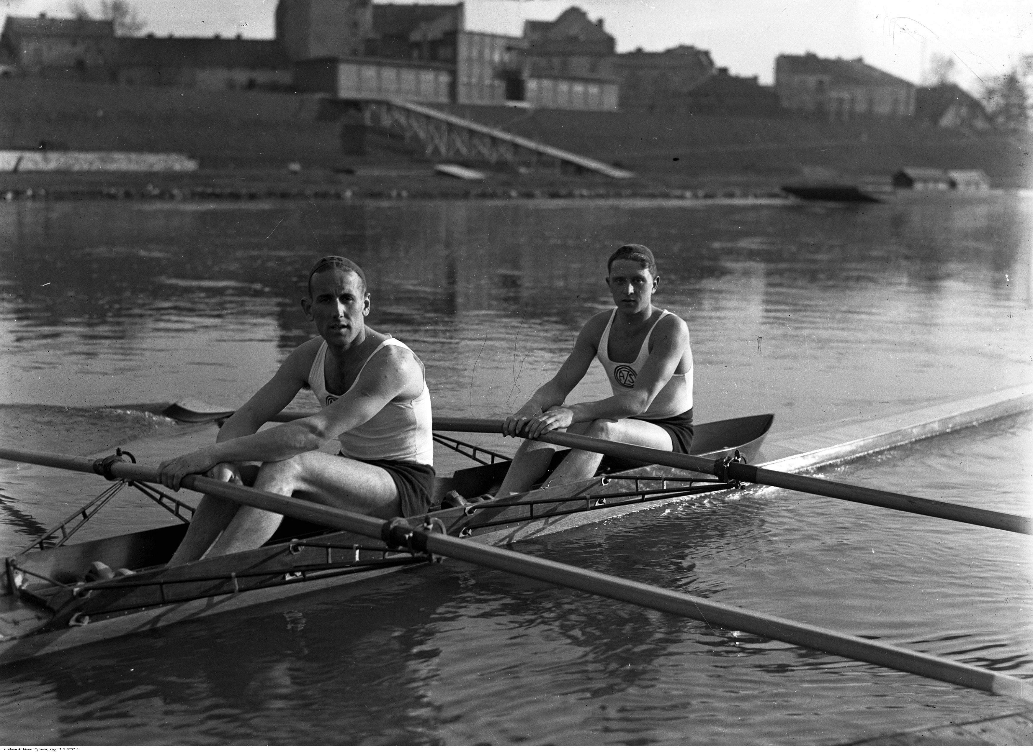 Rowing team training in Krakow: Roger Verey rowers (left) and Jerzy Ustupski (right) during training.